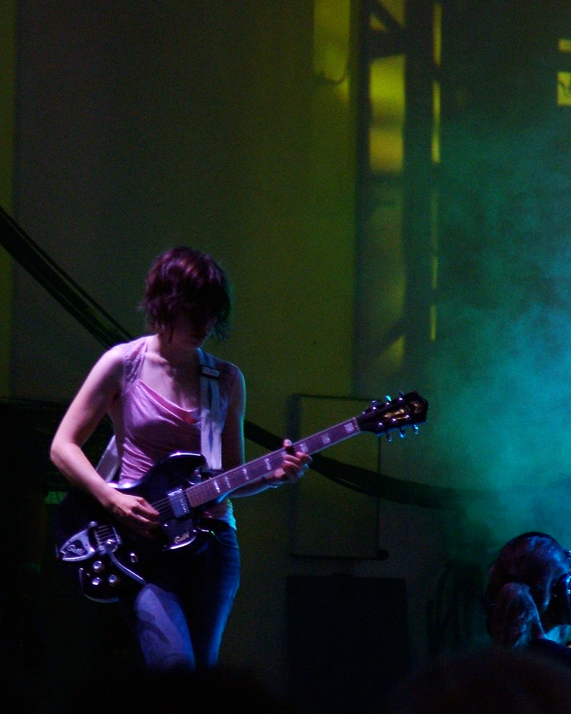 Slater-Kinney concert